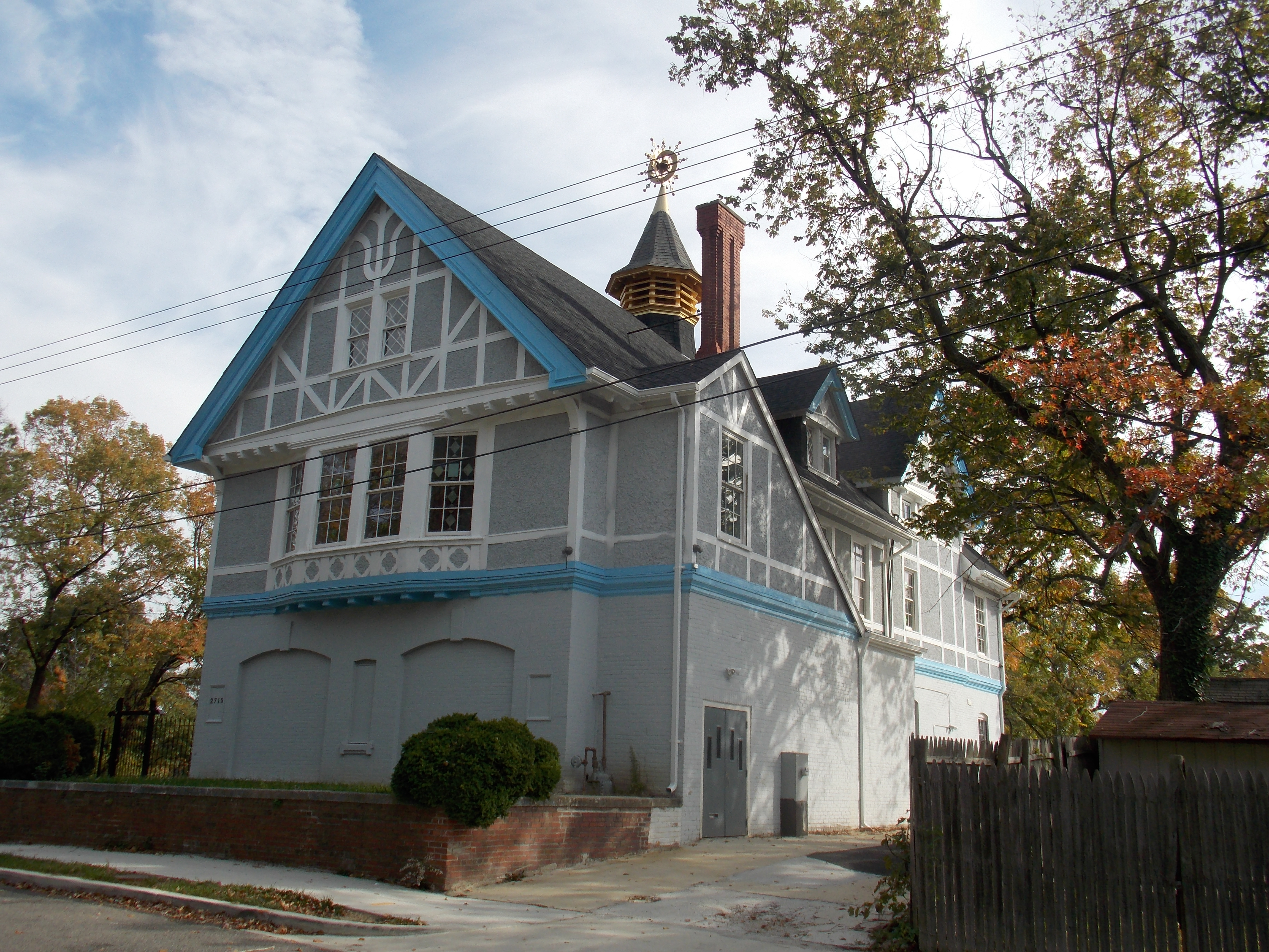 The New Memorial Temple of Christ Apostolic Faith in northeast Washington, D.C. It formerly housed Engine Company 26 and it listed on the National Register of Historic Places.